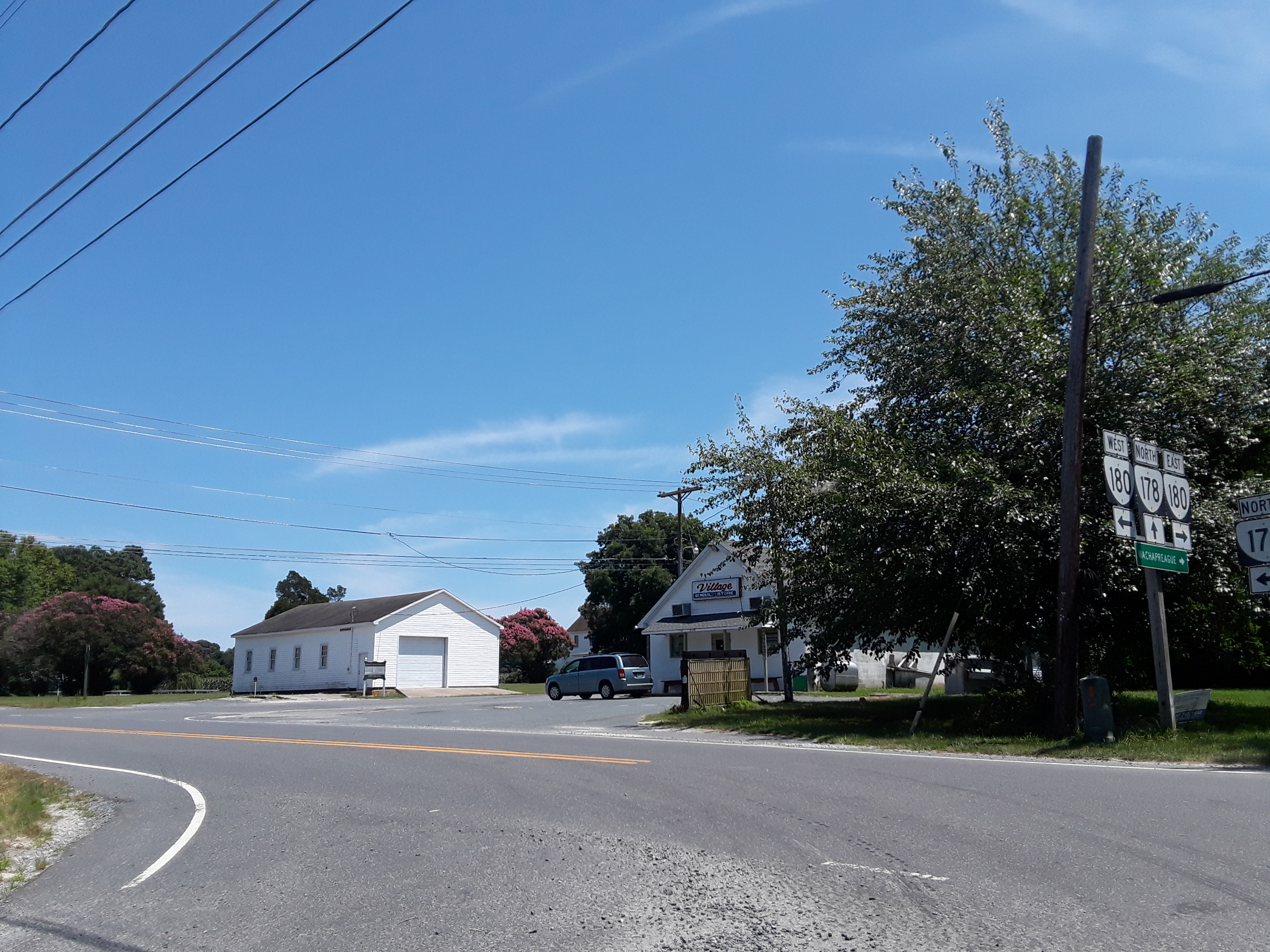 Taken on a visit to the Eastern Shore of Virginia, July 2018